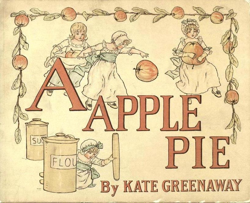 The title page of Kate Greenaway's illustrated alphabet, A Apple Pie", London 1886. The text is traditional and only the illustrations are Kate Greenaway's